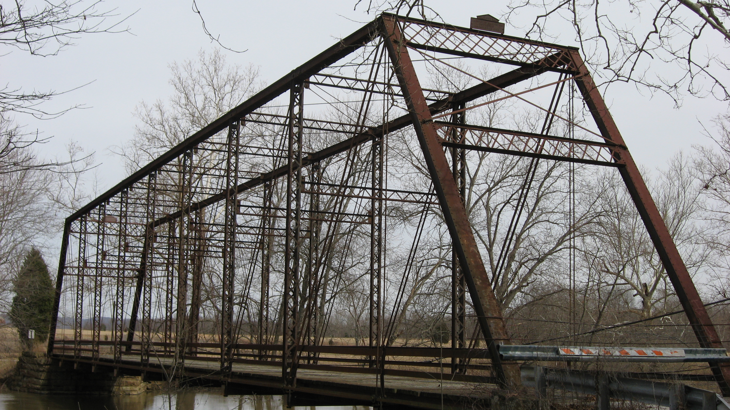 Southern end and western side of the Cavanaugh Bridge, which formerly carried County Road 550W over the Muscatatuck River south of Brownstown over the border between Jackson and Washington counties in the U.S. state of Indiana. Built in 1899, it is listed on the National Register of Historic Places.